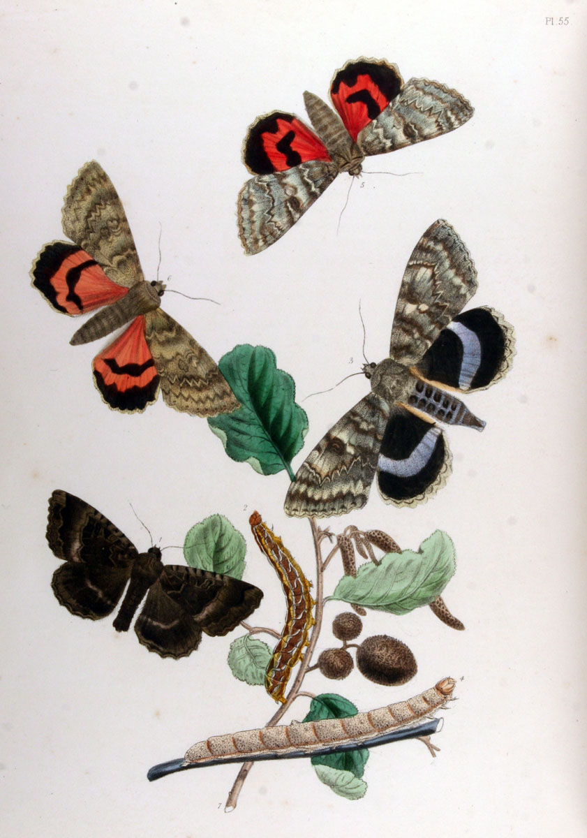 Plate from British Moths and their Transformations. Volume I (1845). Plate 55: Alnus glutinosa. Mormo maura; Catocala fraxini; Catocala nupta; Catocala elocata